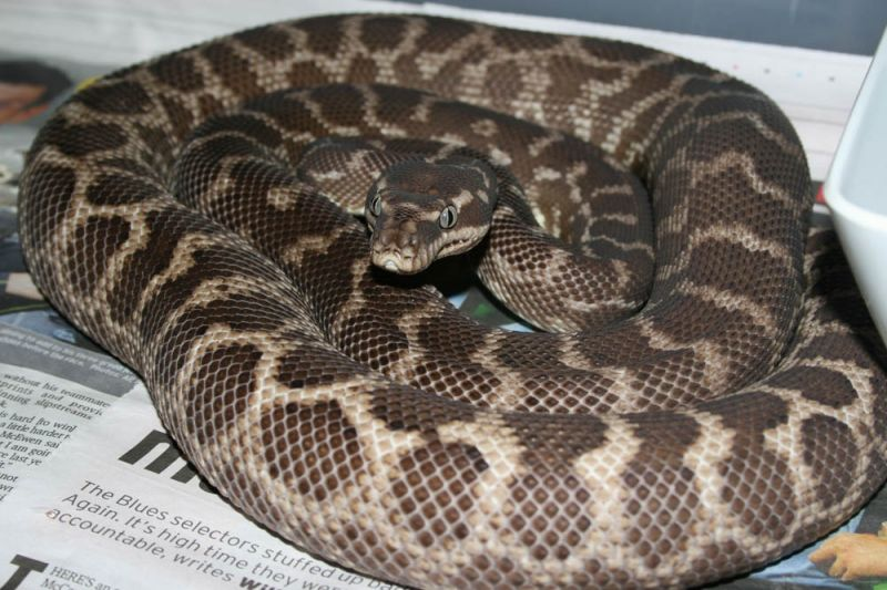 Rough-scaled python in captivity